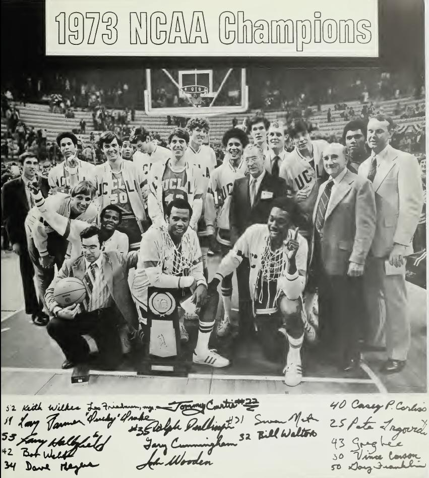 1972–73 UCLA Bruins men's basketball team team photo after 1973 NCAA Championship